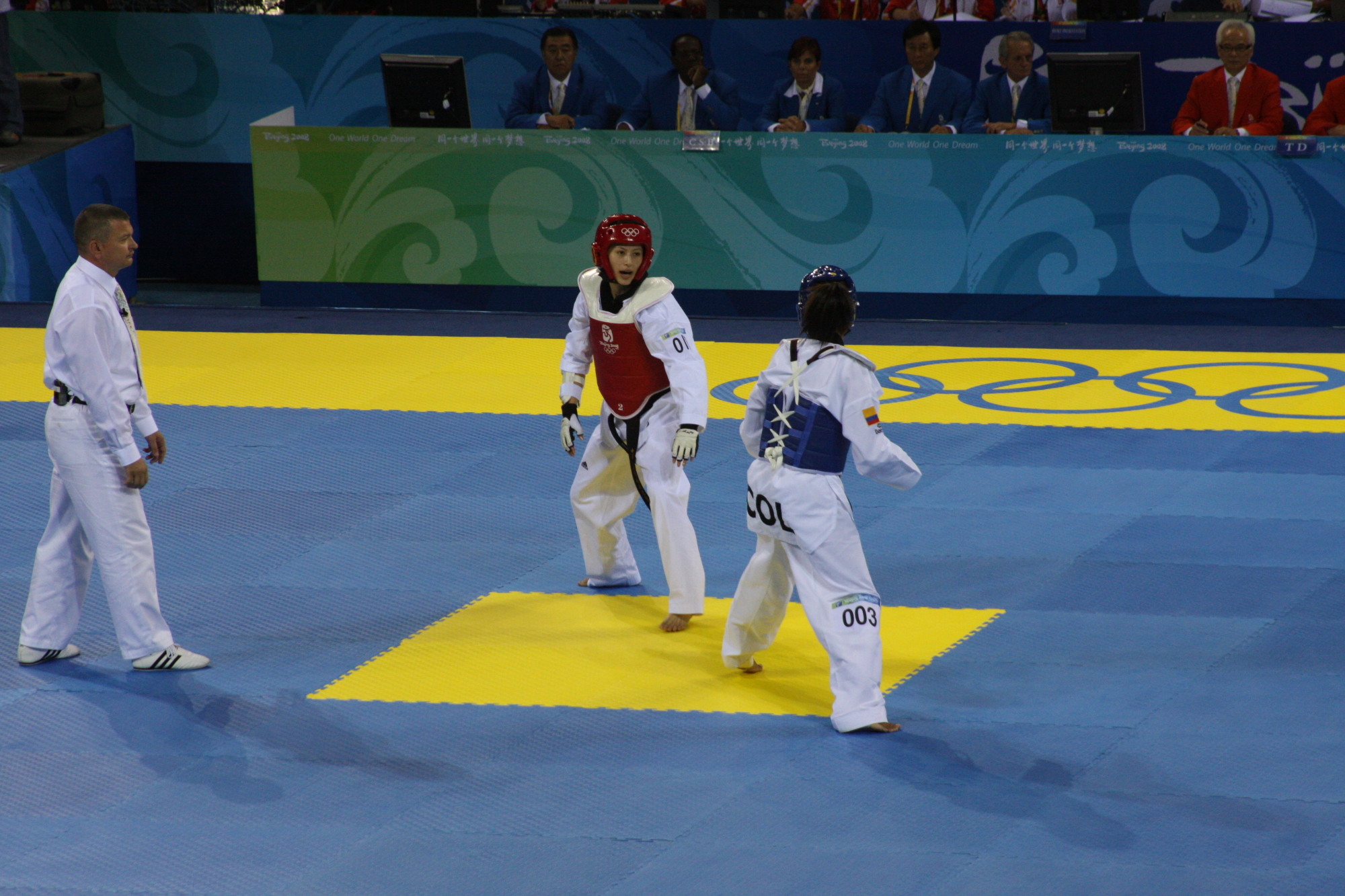 2008 Summer Olympics Taekwondo - Gladys Mora (COL, blue) v.Yang Shu-Chun (TPE, red)